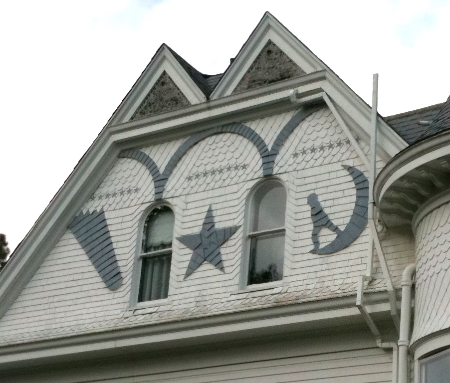 Patterned shingle siding of the historic Thomas J. Flippin House (built 1900), located at 620 Tichenor Street in Clatskanie, Oregon, United States, is listed on the US National Register of Historic Places.